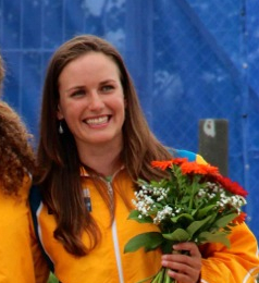 Rosalyn Lawrence - overall canoe slalom C1W World Cup ranking presentation, Bratislava, 2013